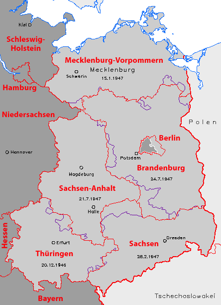 East Germany's states (Länder) as created 1945-1947 after WWII shown with purple borders. They were abolished in 1952, but were recreated in similar borders (red) in prior to German re-unification in 1990.